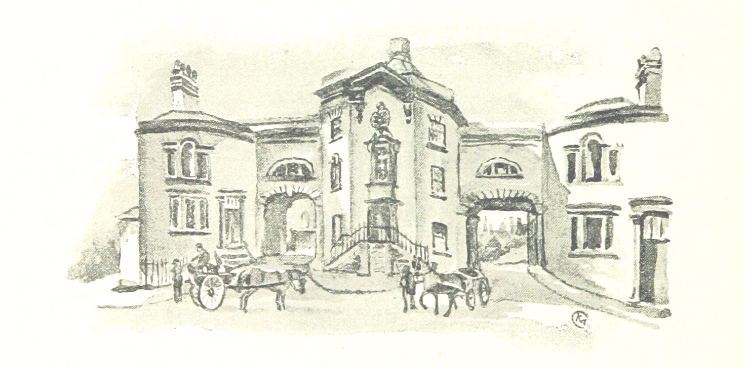 Birmingham Canal Office, Paradise Street, Birmingham, England - print from a drawing by Kate M. Clarke. Page 112. (BL page 140). The head office of the Birmingham Canal Company.